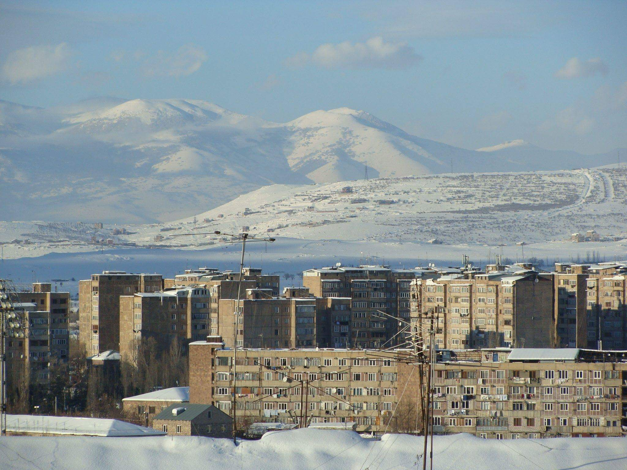 Abovyan with Ara mountain in the background. Armenia.